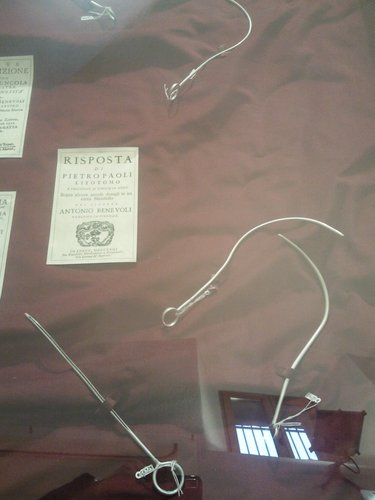 Tools for lithotomy